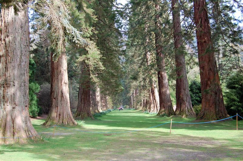 The very impressive avenue of Giant Sequoias at Benmore Botanic Garden, near Dunoon in Argyll, Scotland. Planted in 1863, these giants soar over 50 metres high.